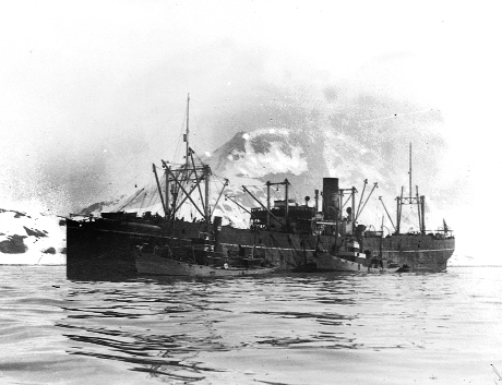 A/S Antarctic's whaling factory "Antarctic", ex. "Opawa" (1906)